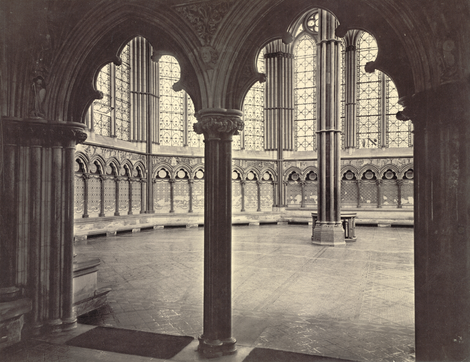 Collection: A. D. White Architectural Photographs, Cornell University Library Accession Number: 15/5/3090.00856 Title: Salisbury Cathedral Chapter House Building Date: ca. 1280 Photograph date: ca. 1865-ca. 1885 Location: Europe: United Kingdom; Salisbury Materials: albumen print Image: 6 1/2 x 8 3/8 in.; 16.51 x 21.2725 cm Style: English Gothic Provenance: Gift of Andrew Dickson White Persistent URI: There are no known copyright restrictions on this image. The digital file is owned by the Cornell University Library which is making it freely available with the request that, when possible, the Library be credited as its source. We had some help with the geocoding from Web Services by Yahoo! This image is from the Cornell University Library's The Commons Flickr stream. The Library has determined that there are no known copyright restrictions. This image was taken from Flickr's The Commons. The uploading organization may have various reasons for determining that no known copyright restrictions exist, such as: The copyright is in the public domain because it has expired; The copyright was injected into the public domain for other reasons, such as failure to adhere to required formalities or conditions; The institution owns the copyright but is not interested in exercising control; or The institution has legal rights sufficient to authorize others to use the work without restrictions. More information can be found at Please add additional copyright tags to this image if more specific information about copyright status can be determined. See Commons:Licensing for more information.No known copyright restrictionsNo restrictions